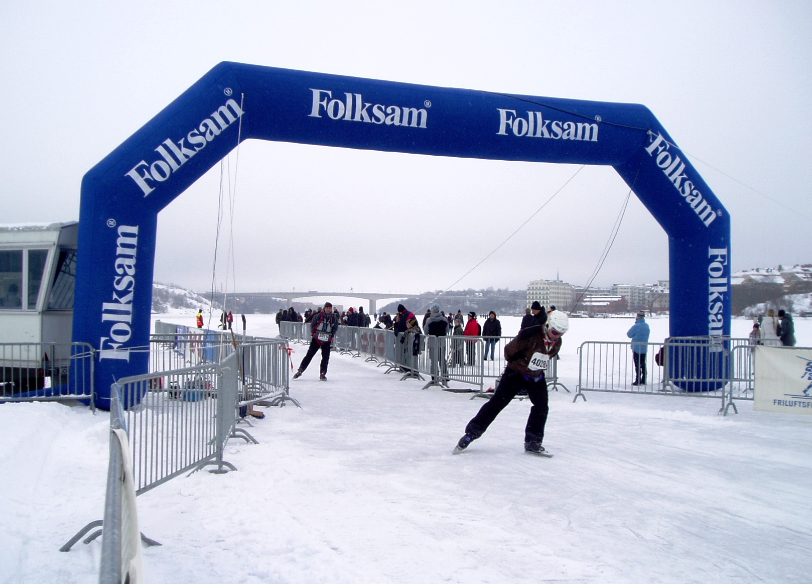 Vikingarännet (The Viking Run), long distance ice skating, 14 February 2010